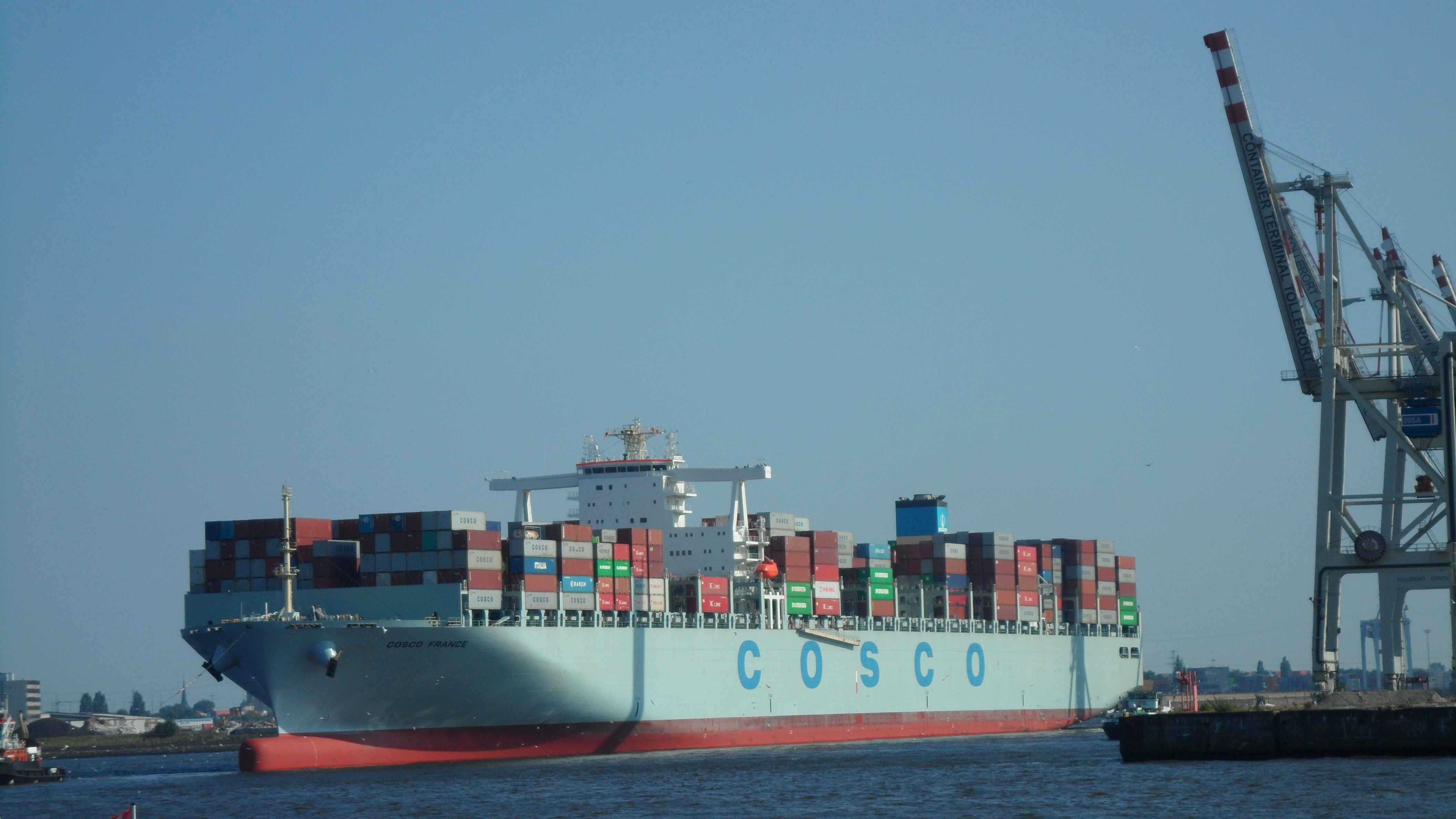 Container ship Cosco France moors with port side at the terminal Tollerort - Hamburg 5th September 2013